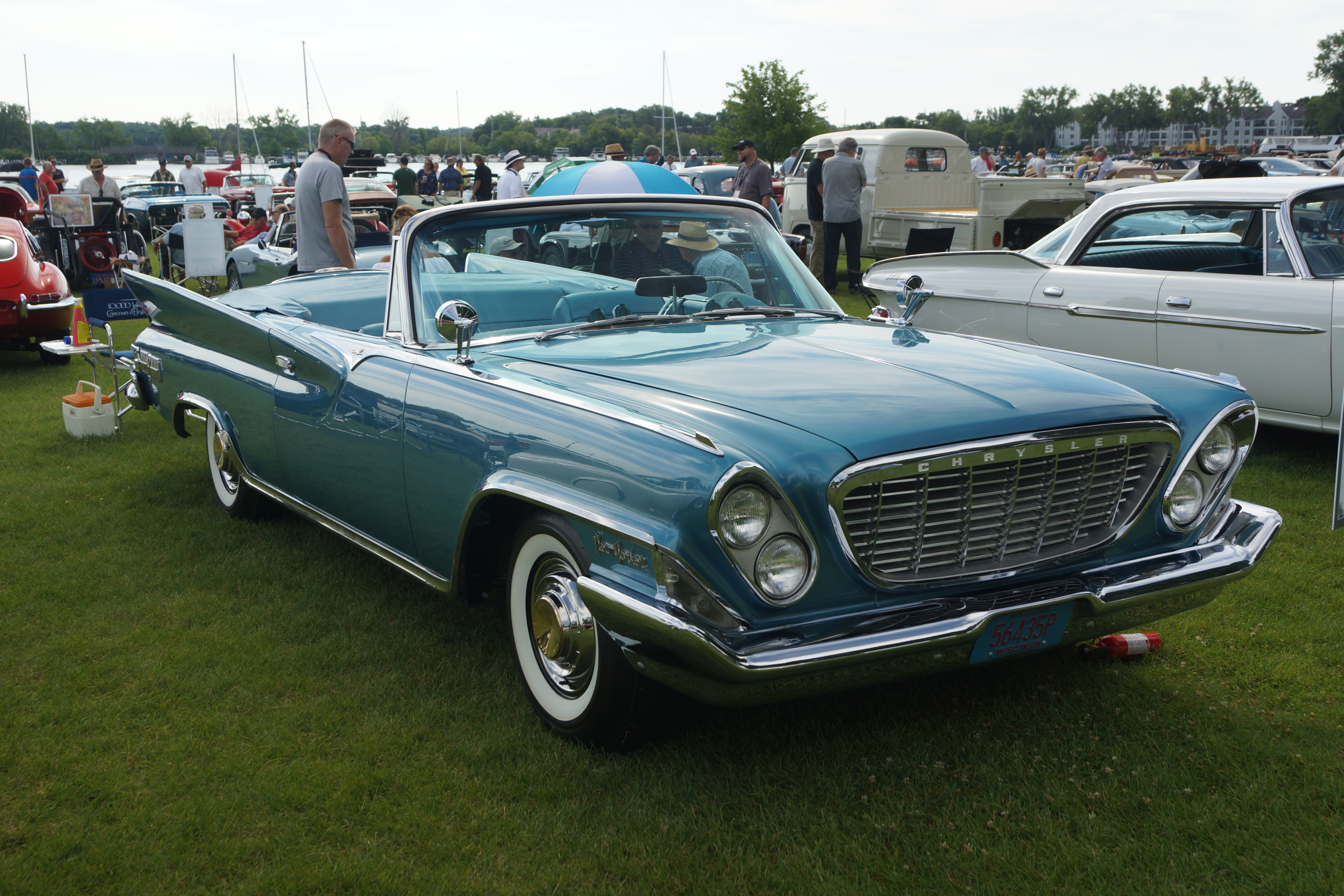 10,000 Lakes Concours d'Elegance Excelsior Commons Excelsior, Minnesota July 30, 2017 ***** Pictures of previous years 10,000 Lakes Concours d'Elegance Click here for more car pictures at my Flickr site. Or here for my Car Crazy Tumblr site. Or on Twitter @DVS1mn.